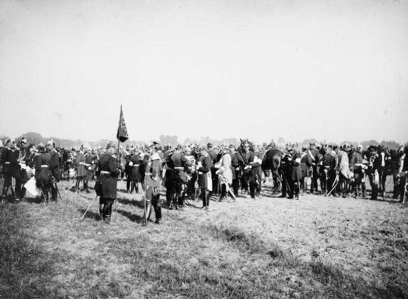 The Imperial German Army 1890 - 1913 Staff officers assemble for briefing during the manoeuvres of 1902. Kaiser Wilhelm II talks to General Ferdinand von Stulpnagel, Commander of V Army Corps.